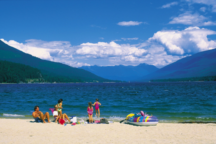 "A family relaxes on Kokanee Creek Provincial Park's famous sandy beach."